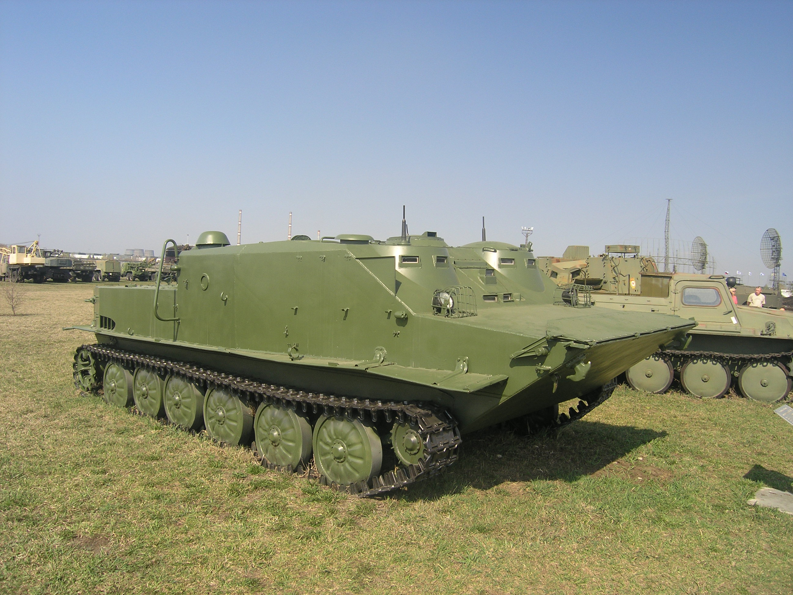 BTR-50PU, technical museum, Togliatti, Russia